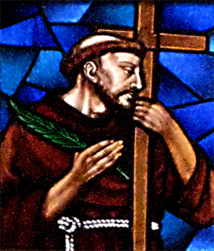 Nikola Tavelić, Rijeka, stained glass piece